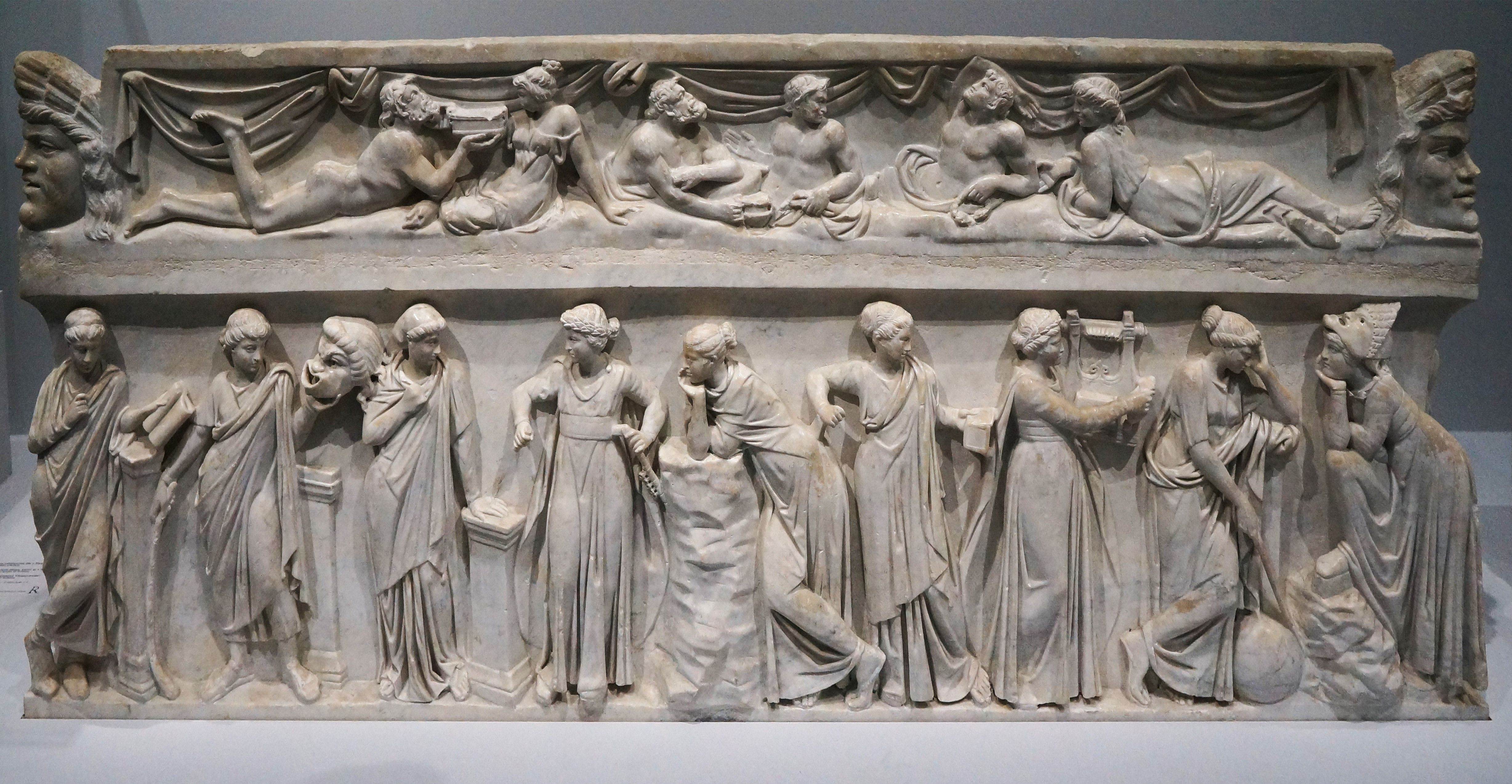 Sarcophagus known as the "Muses Sarcophagus", representing the nine Muses and their attributes. Marble, first half of the 2nd century AD, found by the Via Ostiense.